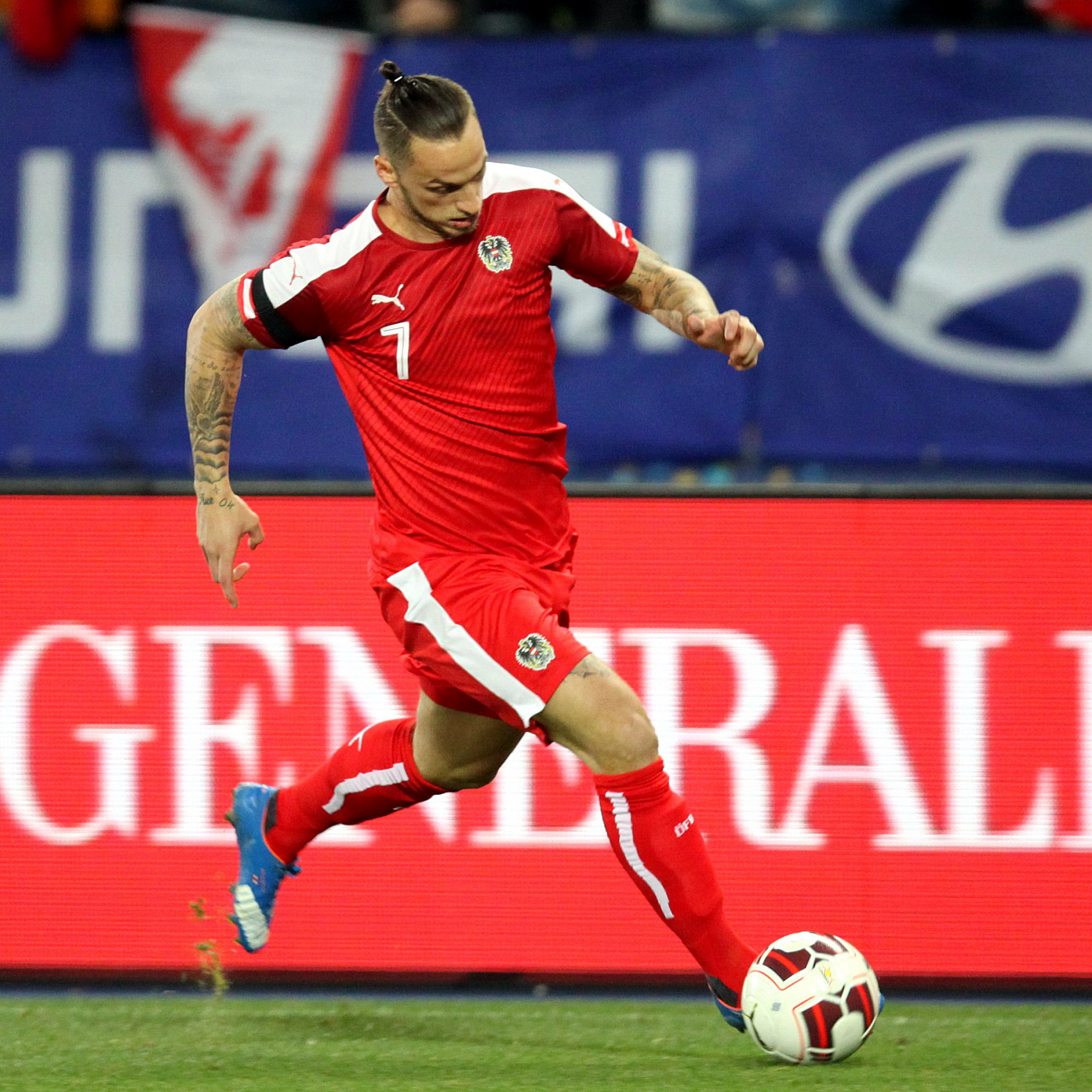 Friendly match – Austria (red shirts) vs. Switzerland (white shirts) 1-2 (1-2) – 2015-11-17 in Vienna, Ernst-Happel-Stadion – The photo shows Marko Arnautović.